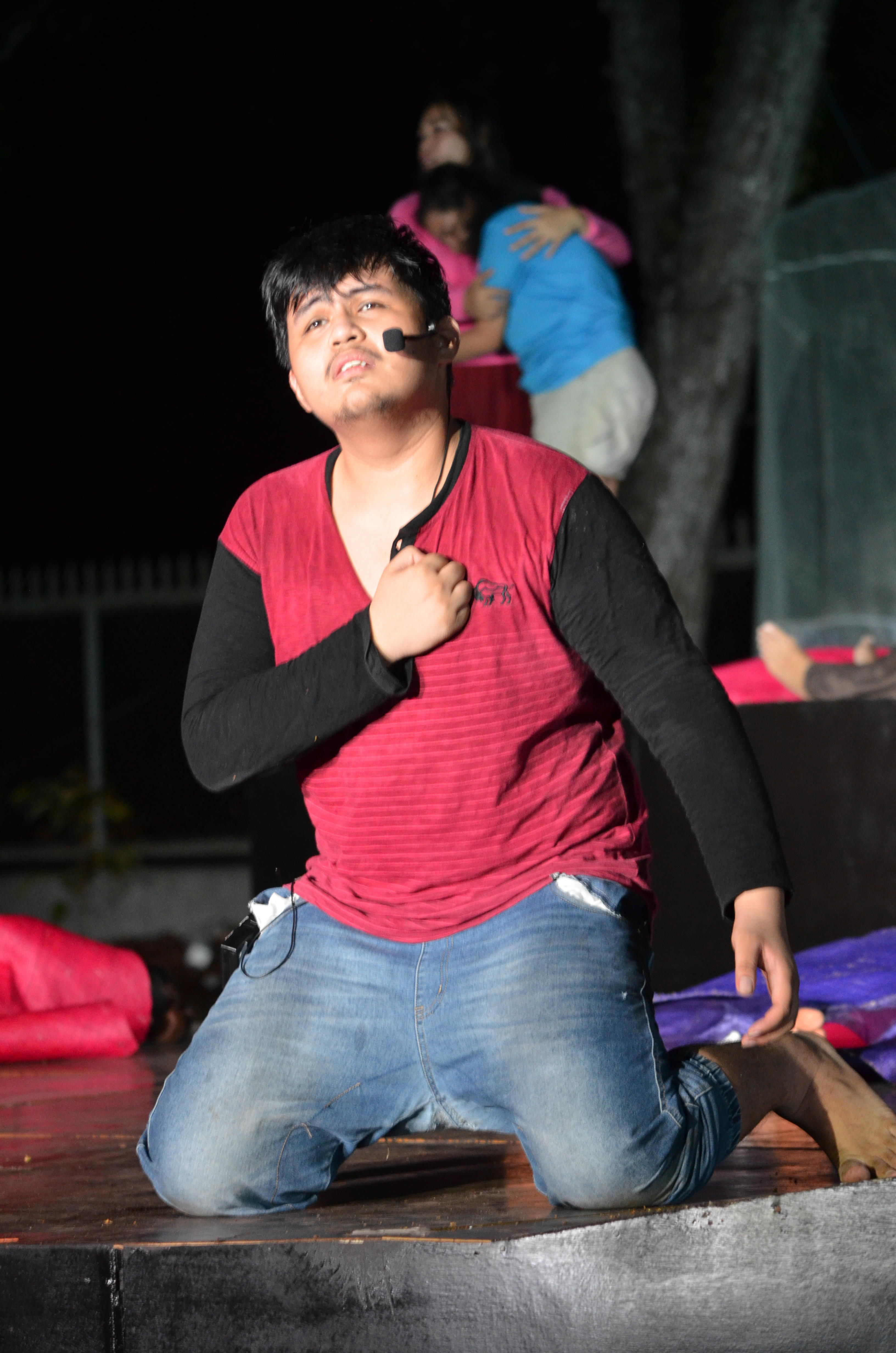 Performance during the staging of Lunop han Dughan at University of the Philippines Visayas Tacloban College in 2019